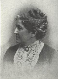 Photograph of Rebecca Sophia Clarke or "Sophie May" (1833-1906) Children's author.